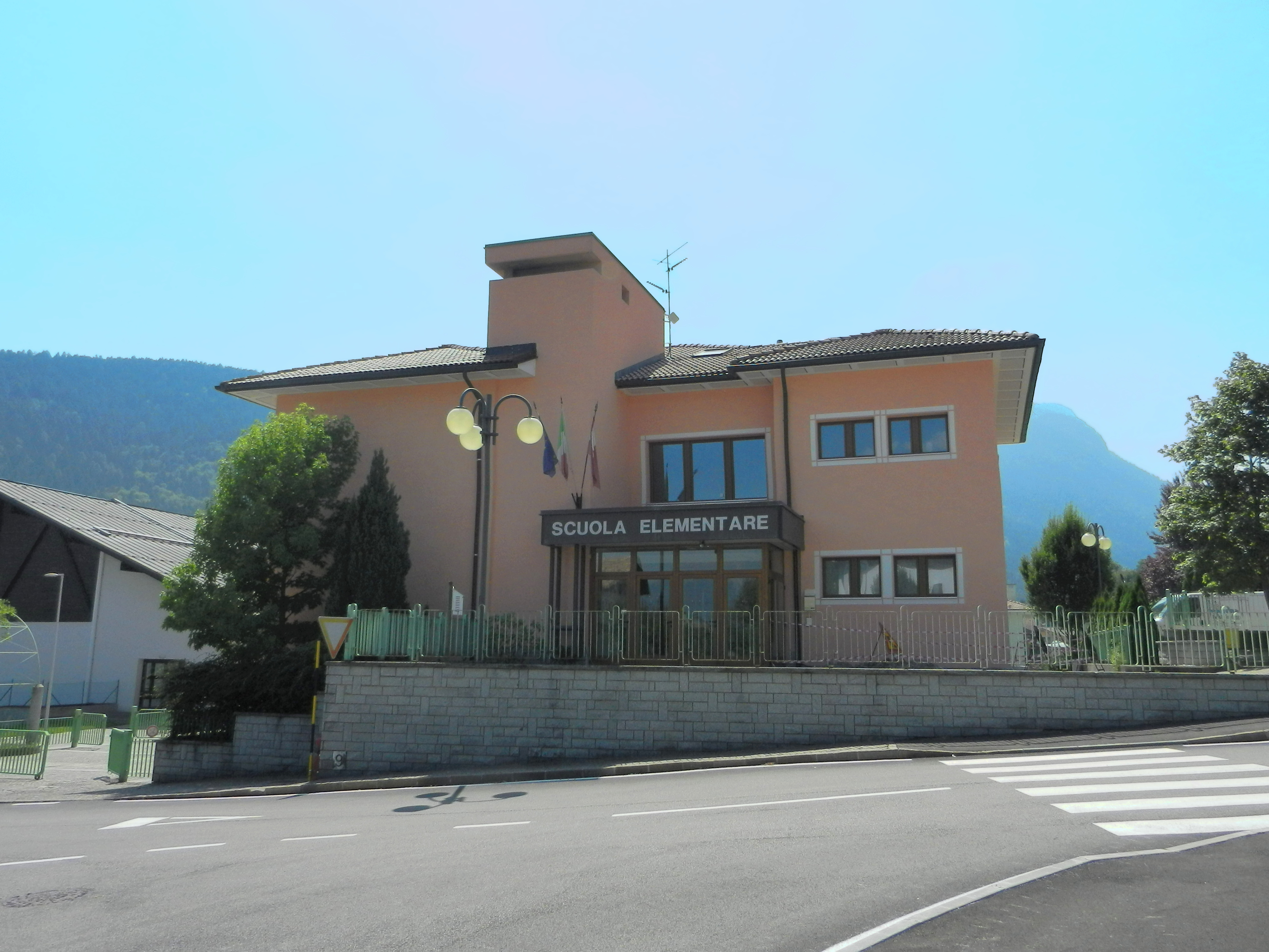 The elementary school in Fiavè.